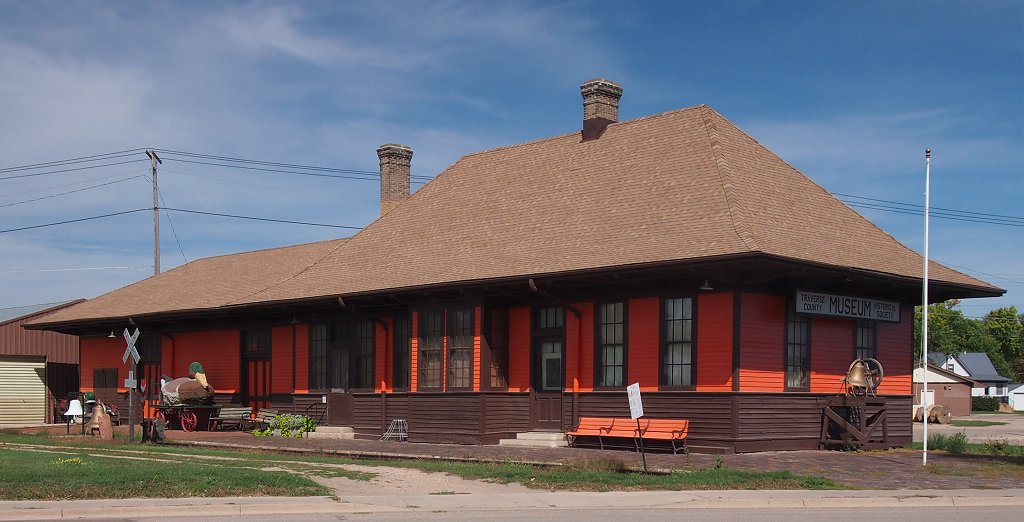 Chicago, Milwaukee and St. Paul Depot, Wheaton, Minnesota, USA. Now houses the Traverse County Historical Society Museum. Viewed from the south.